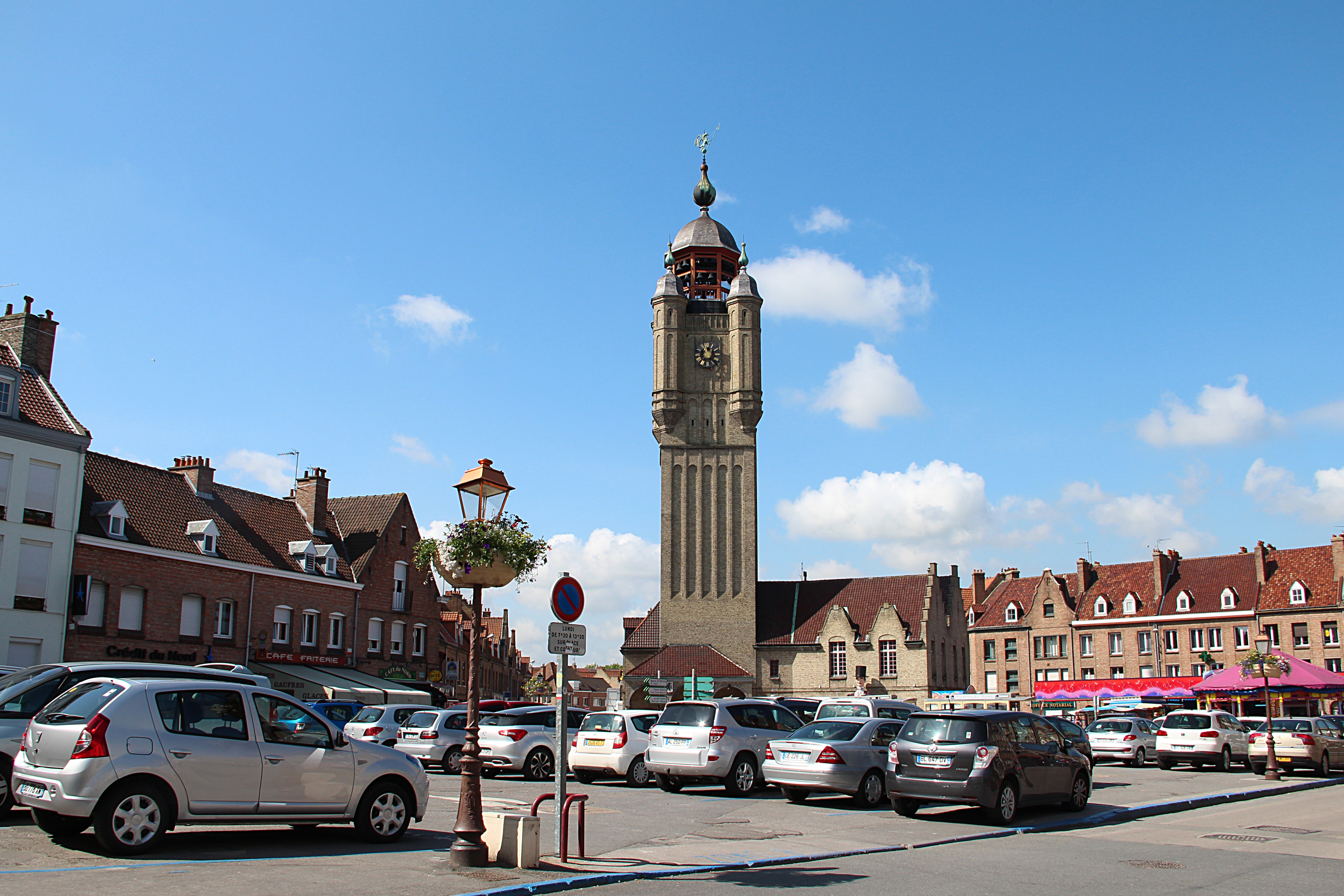 The belfry and the place de la Répblique in Bergues (département du Nord, France).